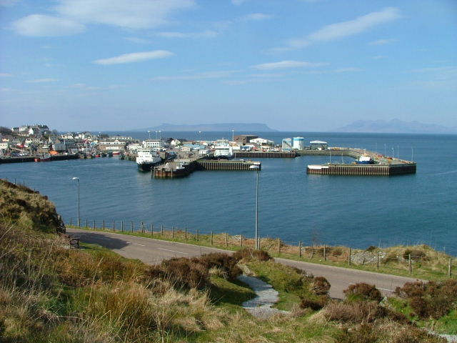 Mallaig and the Harbour From the housing estate above the town. The islands of Eigg (left) and Rum are in the distance.